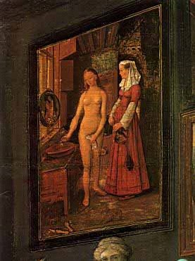 Detail of The Gallery of Cornelis van der Geest from Willem van Haecht. This picture